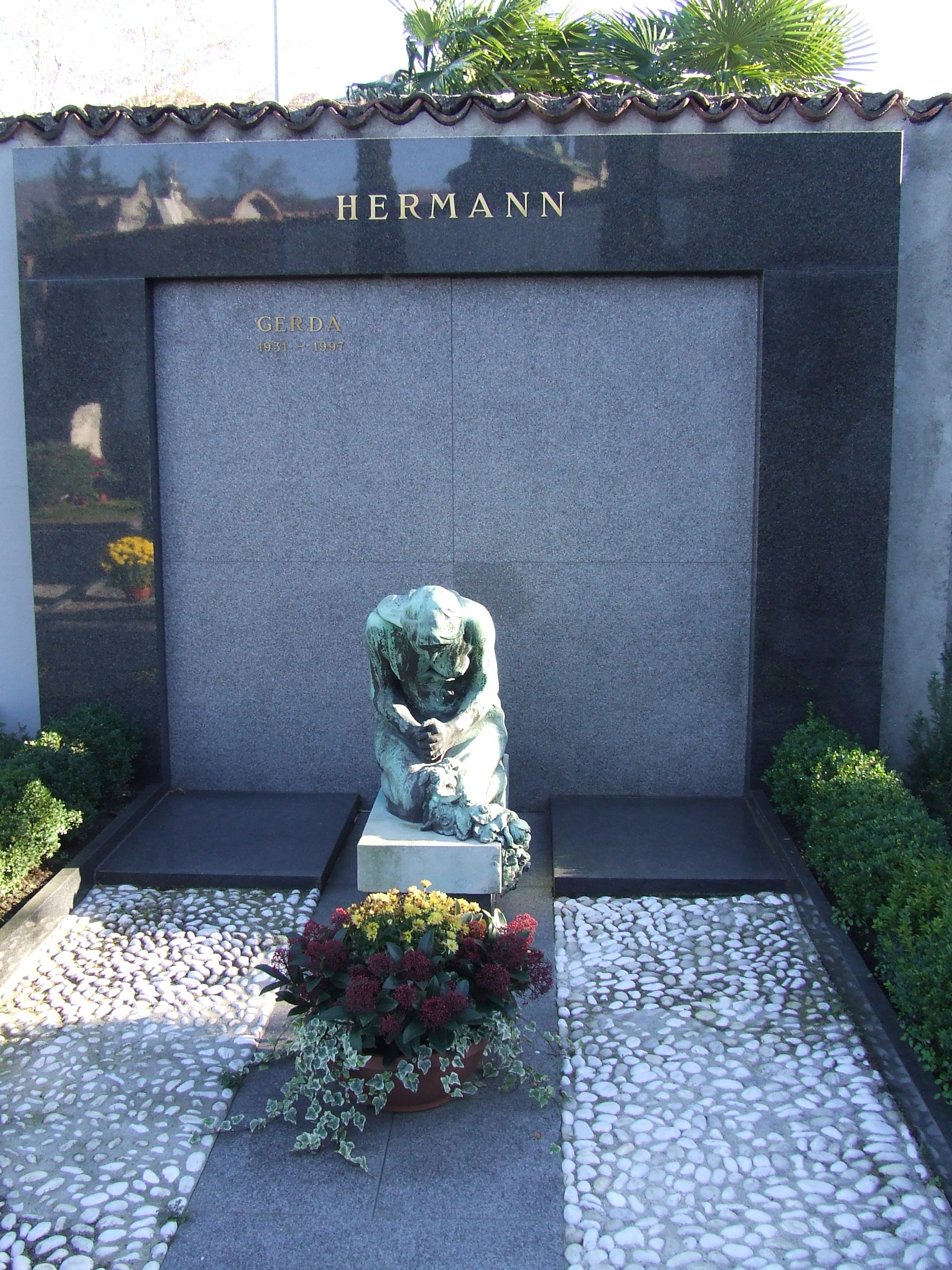 (Hermann Hesse's tomb at Montagnola, Switzerland.) This is not Hermann Hesse's tomb! It is a tomb of a family named 'Hermann'.